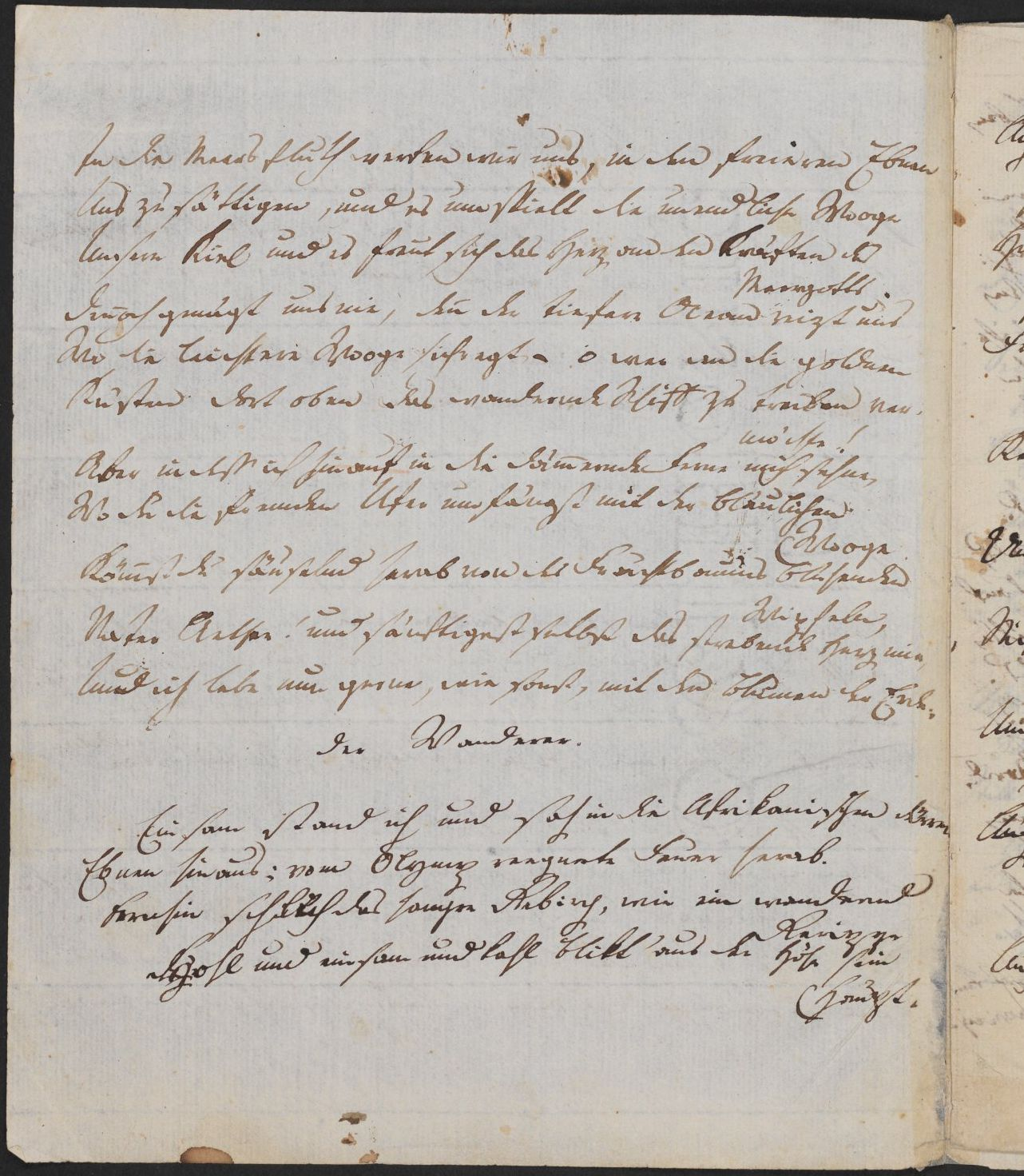 Manuscript by Friedrich Hölderlin "Der Wanderer", page 1